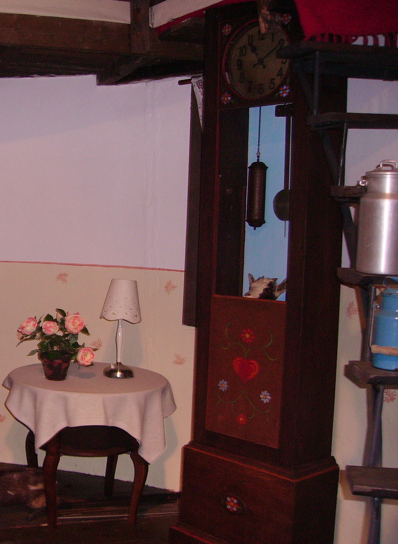 Märchengarten (fairy garden garden park) in Ludwigsburg, Germany.